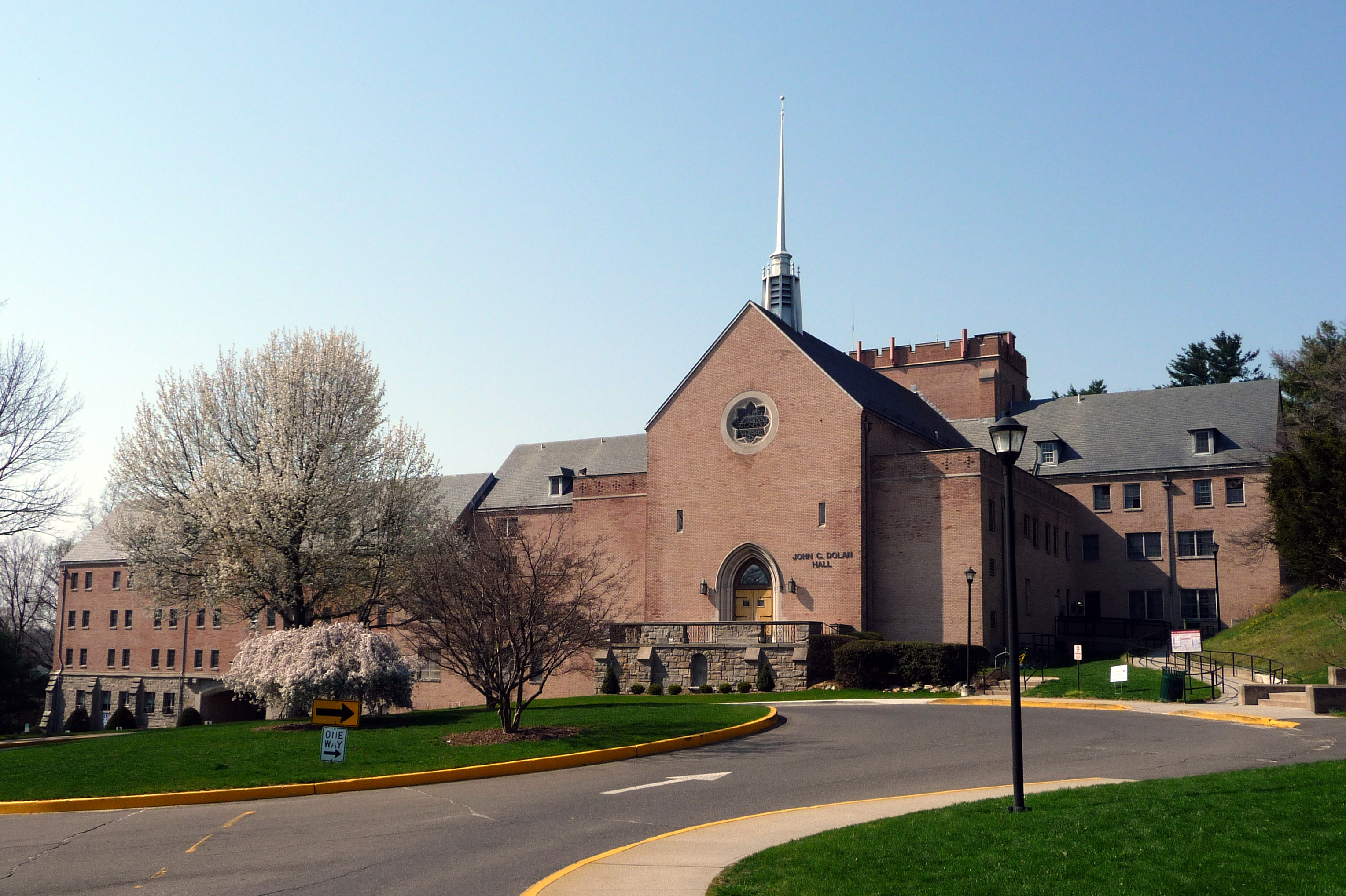 Dolan Hall to Fairfield University, Fairfield, Connecticut, USA